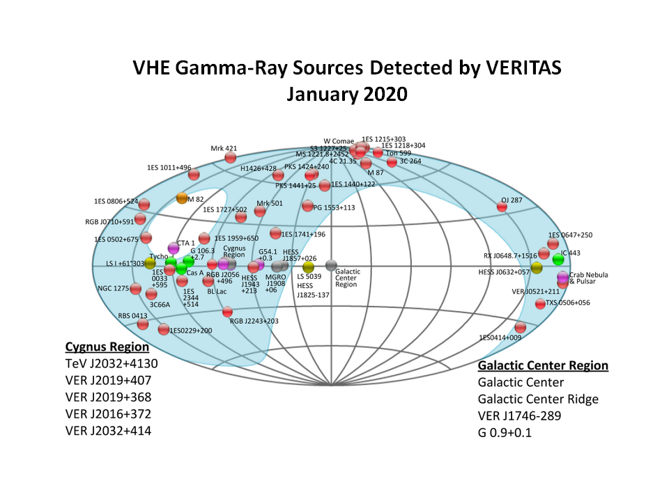 This shows the very high energy gamma-ray sources detected by the VERITAS observatory in Arizona, USA.